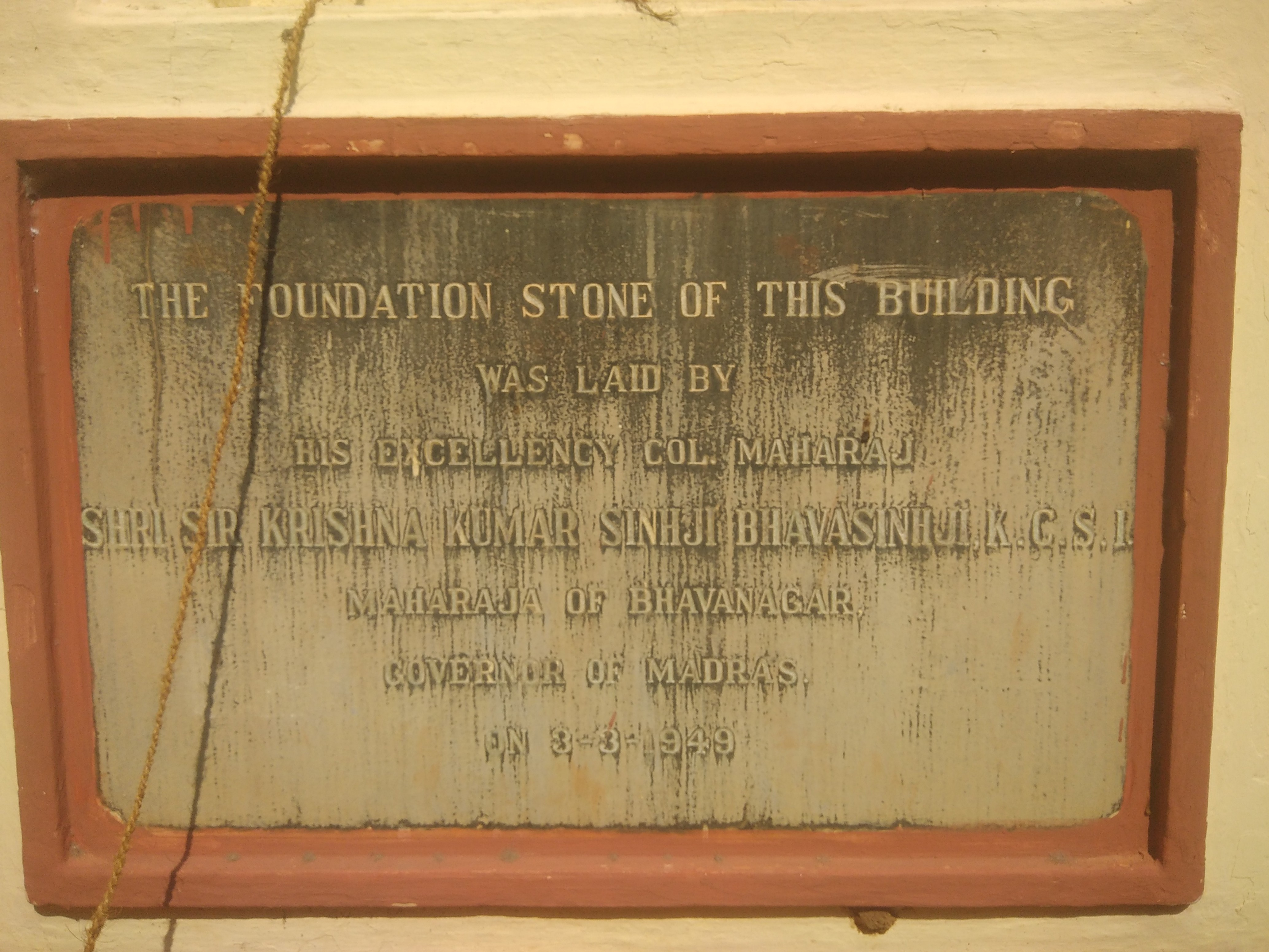 Govt Victoria College Palakkad Campus